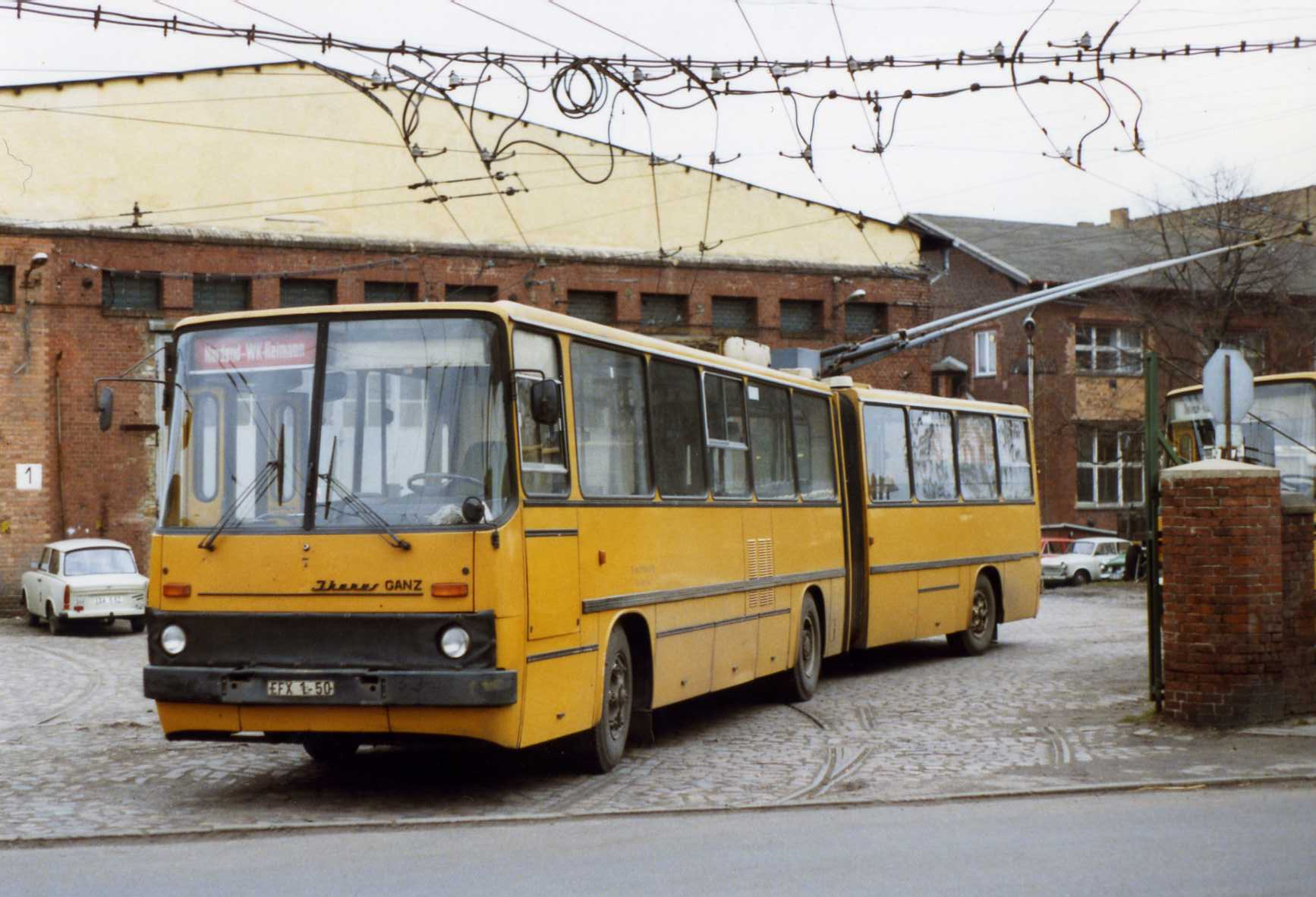 Eberswalde No 7 ready for service on the route Nordend- WK Reimann (the huge Max Reimann WohnKomplex of 5000 flats near Finow, started in 1977).